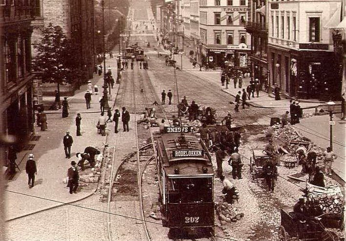 Kristiania Kommunale Sporveie tram in Egertorget